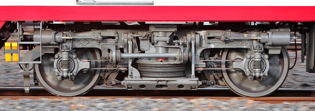 Sumitomo Metal Industries type FS-370A ( Tobu type TRS-67MA ) bogie truck of Tobu Railway 200 series EMU ( Moha 207-1 )